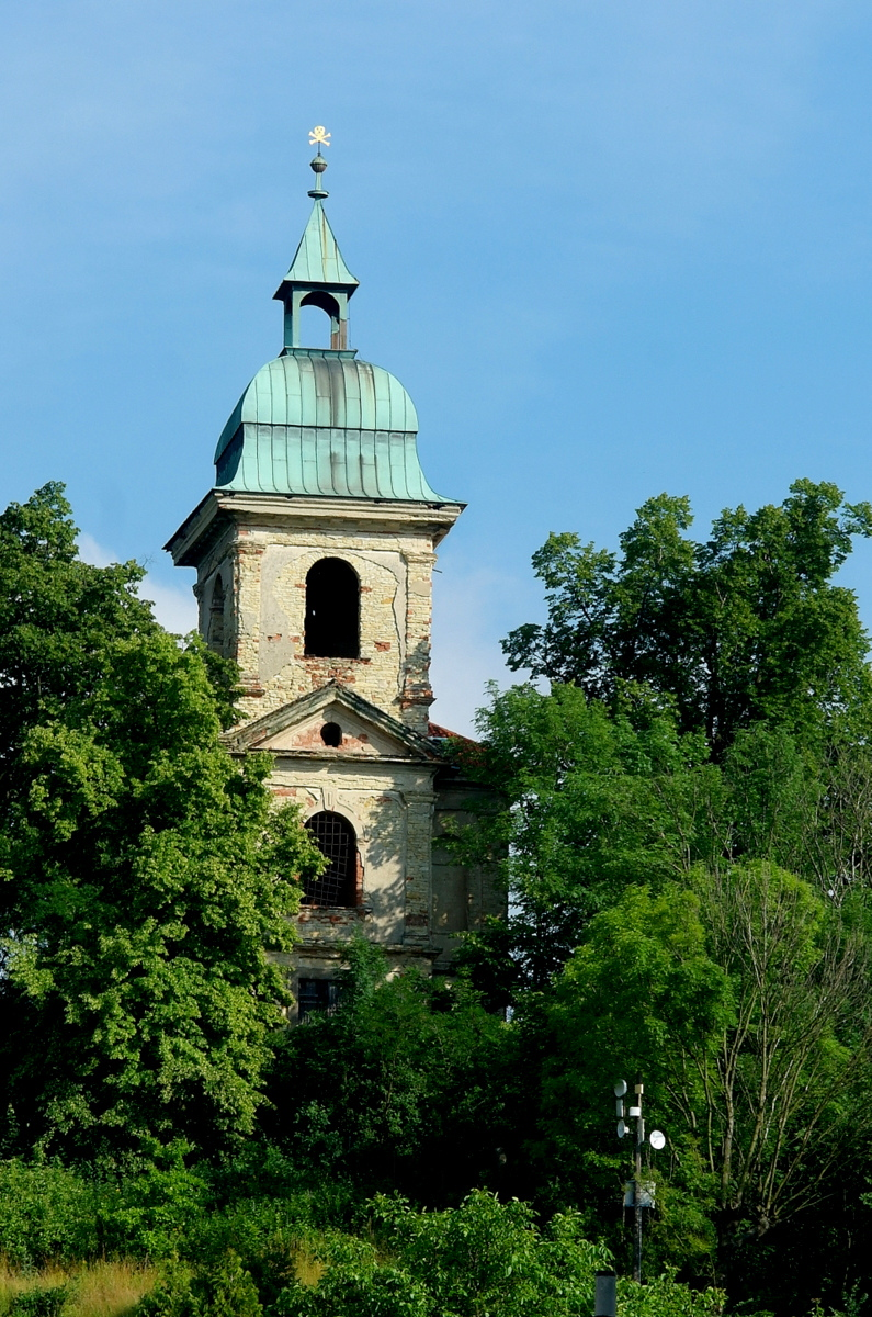 Church of Holy Spirit, at vineyard hill above the village, Liběchov, Melnik District. Nave church of rectangular ground plan with a prismatic bell tower in the facade. Tower´s bell shaped mansard roof is topped with a lantern. Rectangular entrance portal of the main facade is lined with stone jambs, above which is arched window and distinctive gabled tympanum with a circular hole. The view from the northwest.